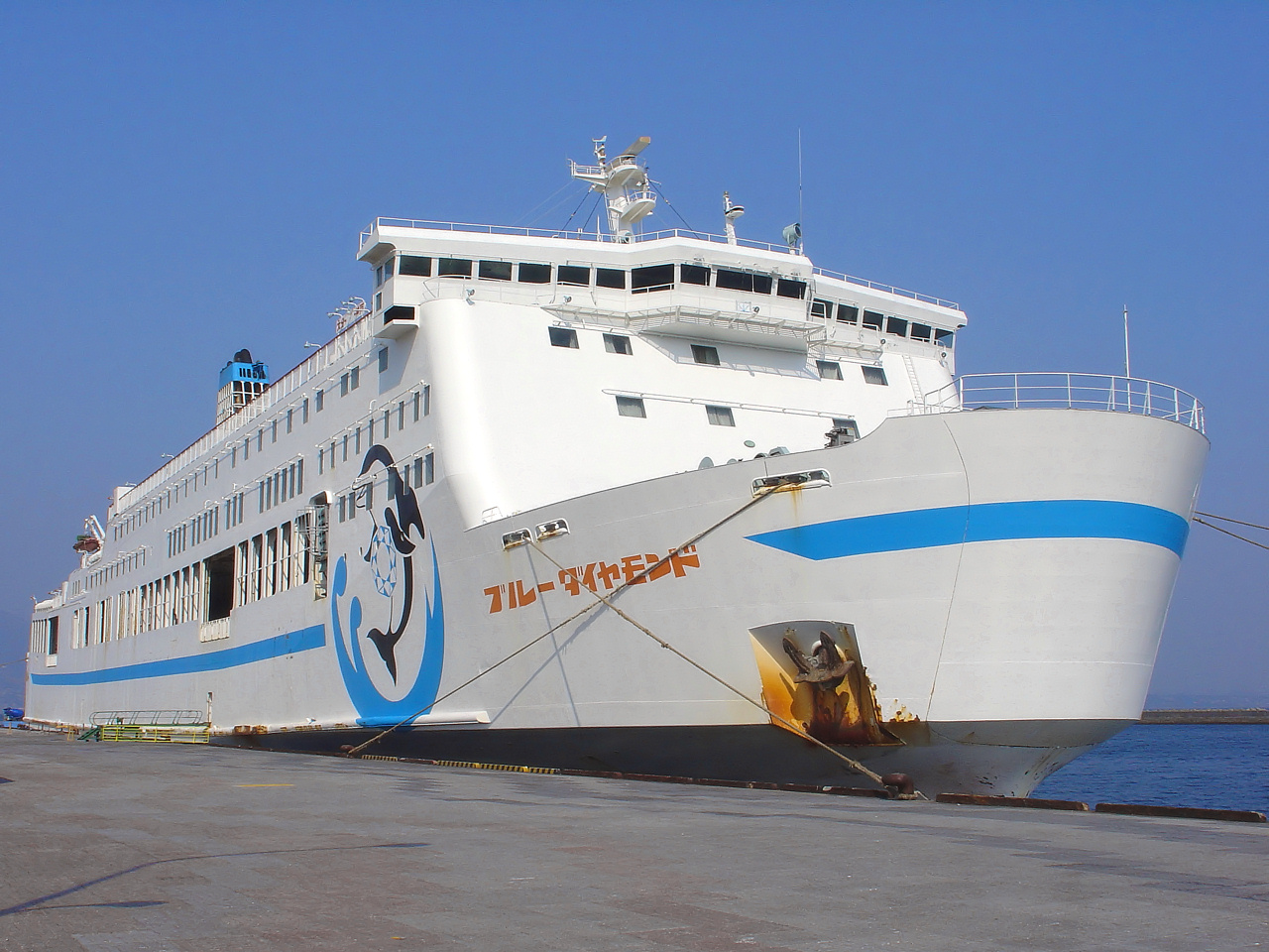 Diamond Ferry, Blue Diamond. Taken at Beppu Port(Beppu City, Oita Prefecture, Japan) IMO Number: 9000455 MMSI Number: 440122380 Callsign: 300MARY Length: 144 m Beam: 25 m